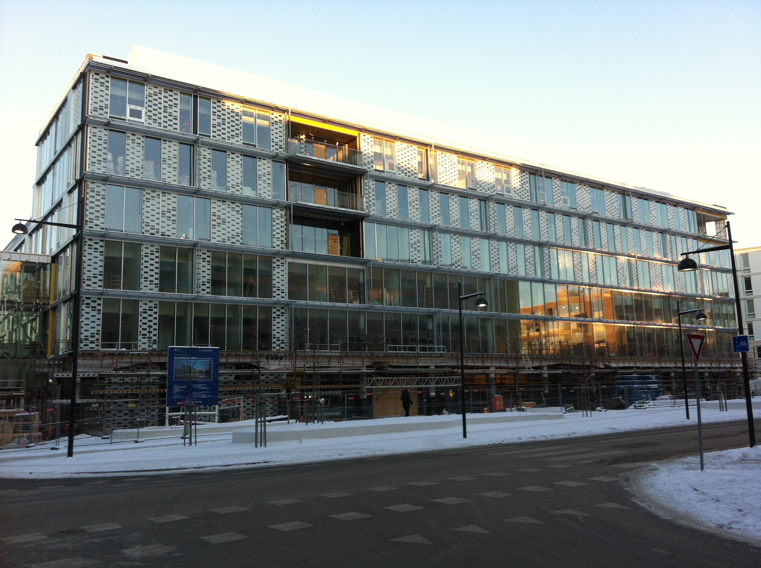 The new "knowledge center" (Kunnskapssenteret) at the St. Olav hospital in Trondheim, Norway. Architect: Narud Stokke Wiig arkitekter og planleggere (now: Nordic Office of Architecture) v/architect Hanne Hemsen.